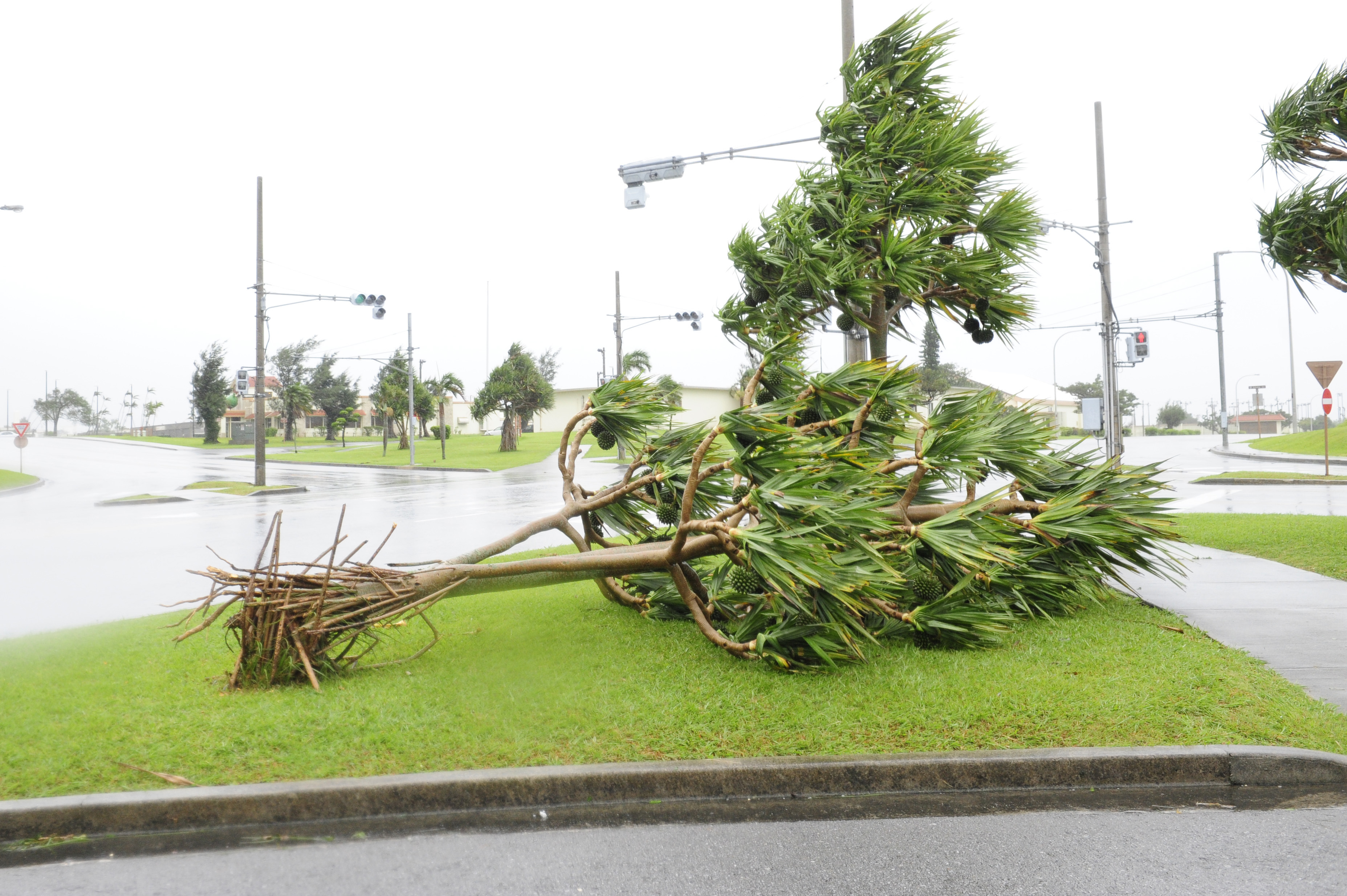 A large tree lies uprooted by Typhoon Chan-hom on Kadena Air Base, Japan, July 10, 2015. Chan-hom had damaging wind speeds in excess of 50 knots knocking down trees across the installation. Typhoons are formed when warm surface water from the Pacific Ocean combines with the high humidity and low, cool winds in the region. (U.S. Air Force photo by Airman 1st Class John Linzmeier)